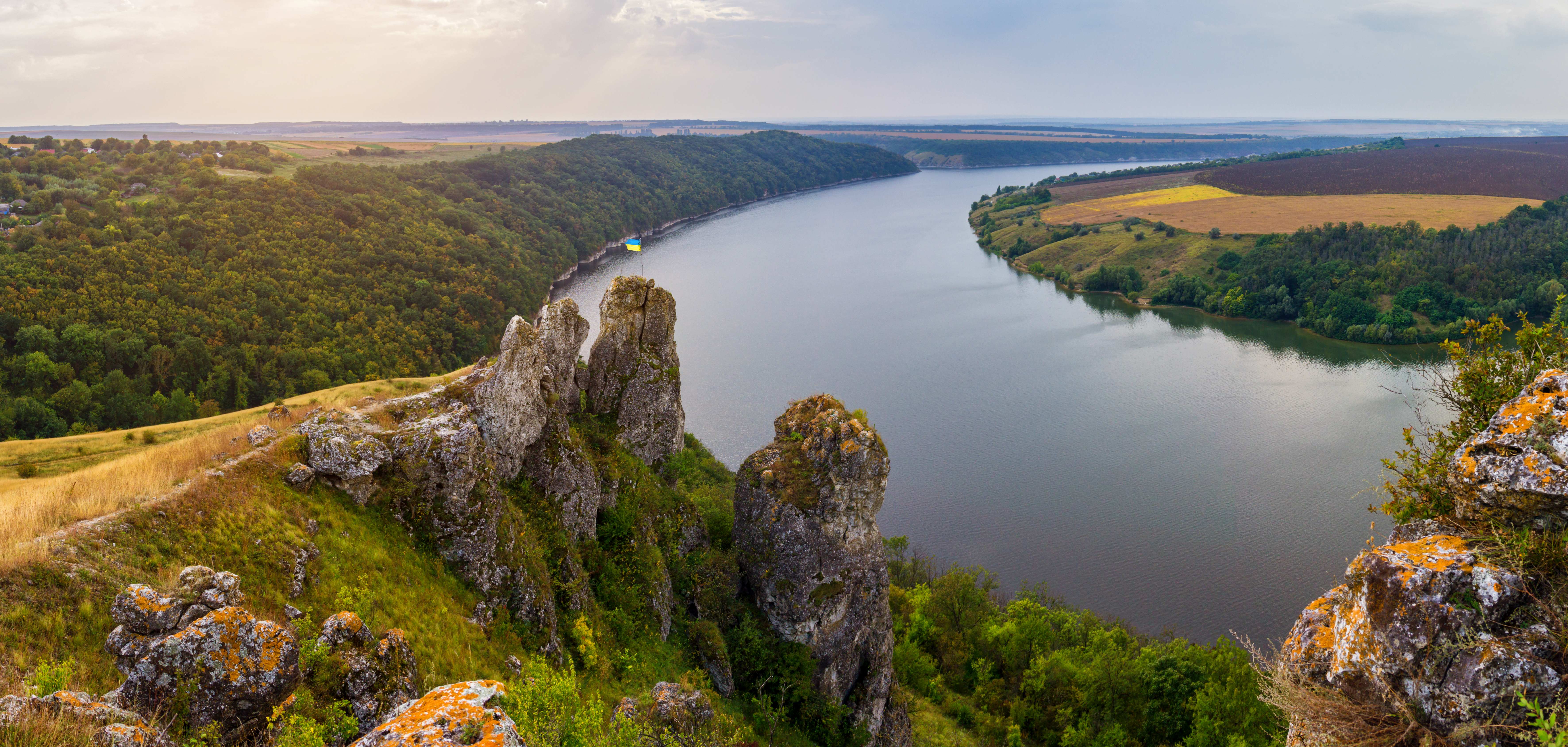 Panoramic view of the hills above Dniester. Nahoriany village, Chernivtsi Oblast.